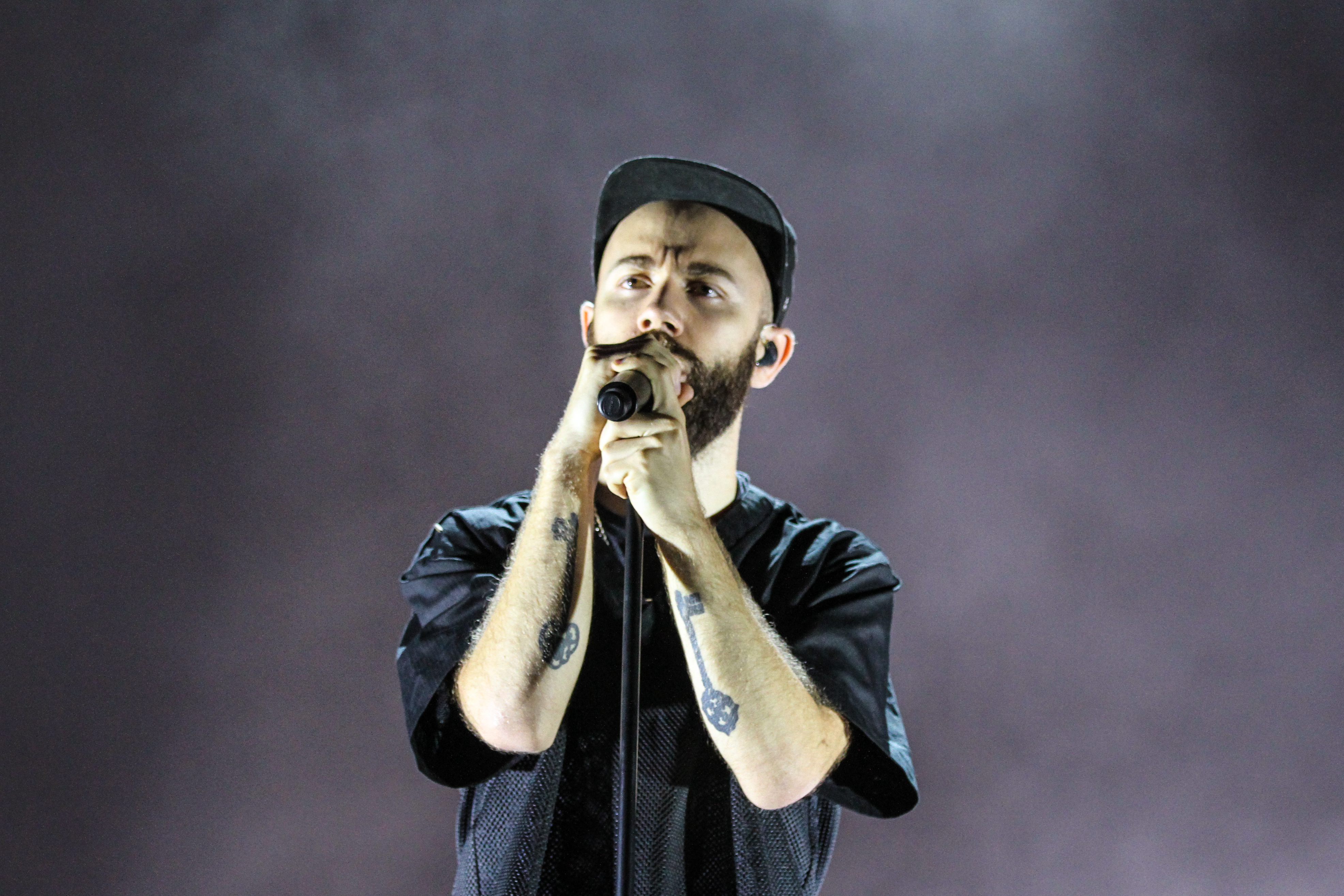 Woodkid performing at Melt! Festival 2013